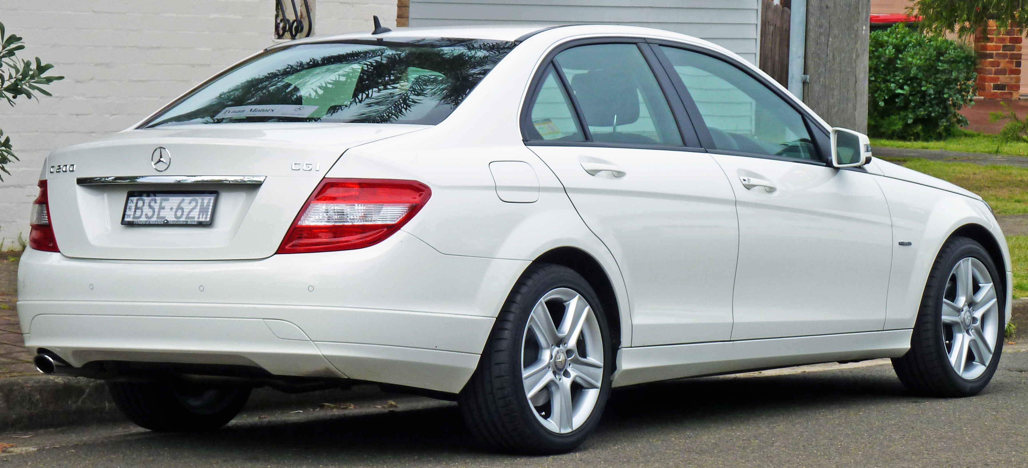 2010 Mercedes-Benz C 200 CGI (W 204) Classic sedan. Photographed in Sandringham, New South Wales, Australia.